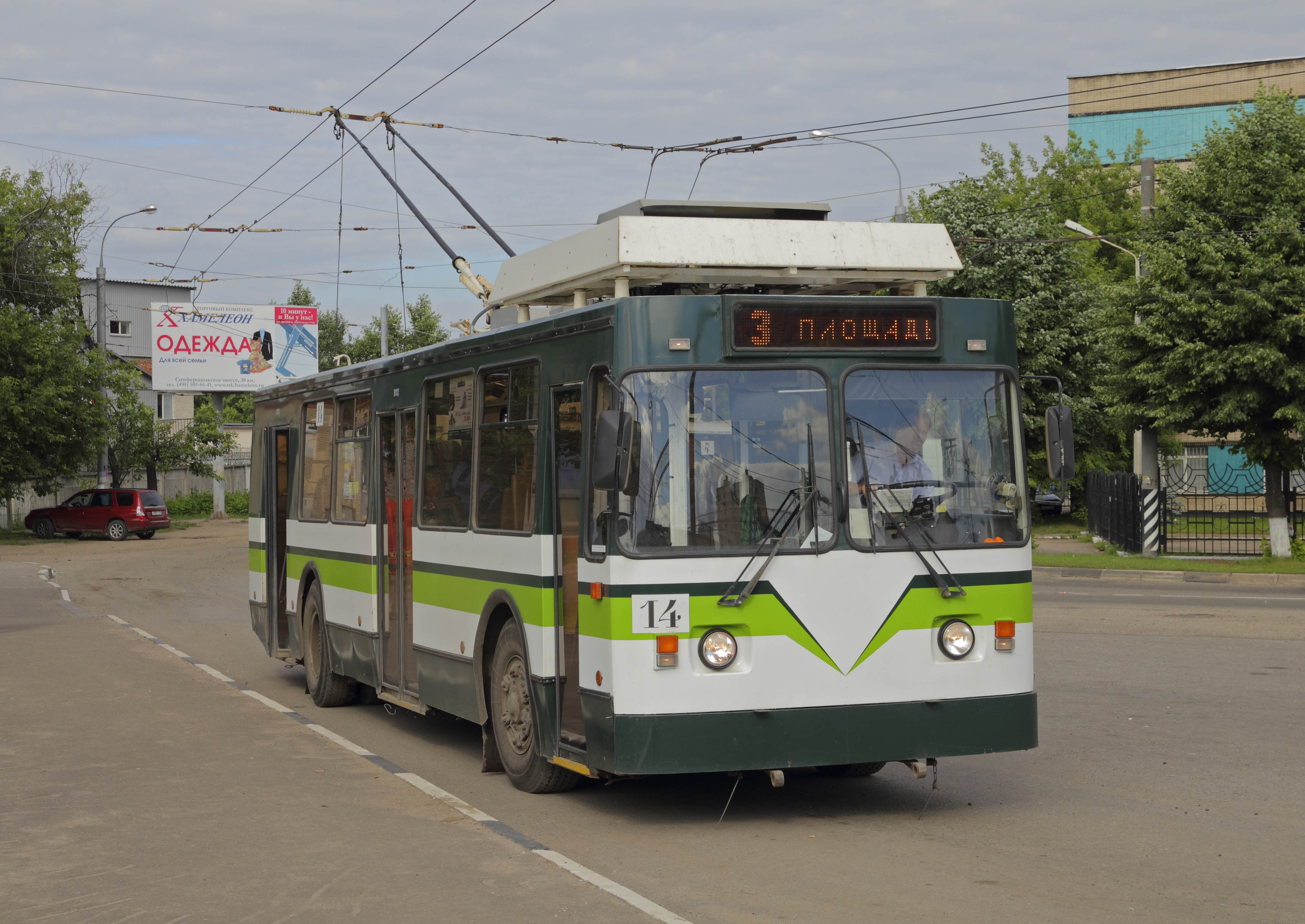 Trolleybus ZiU-682 in Podolsk, Moscow Oblast